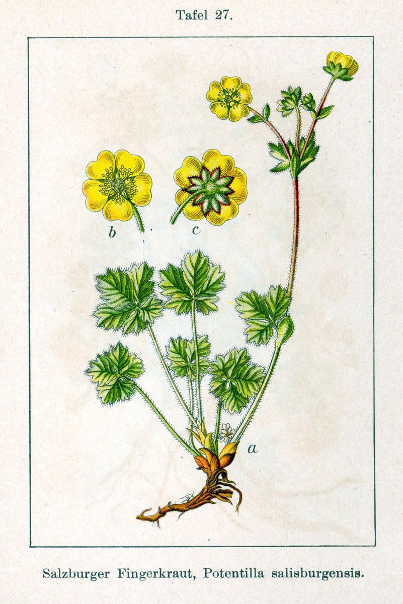 Potentilla neumanniana Aschers., syn. Potentilla crantzii subsp. crantzii, Potentilla salisburgensis Haenke Original Description Salzburger Fingerkraut, Potentilla salisburgensis